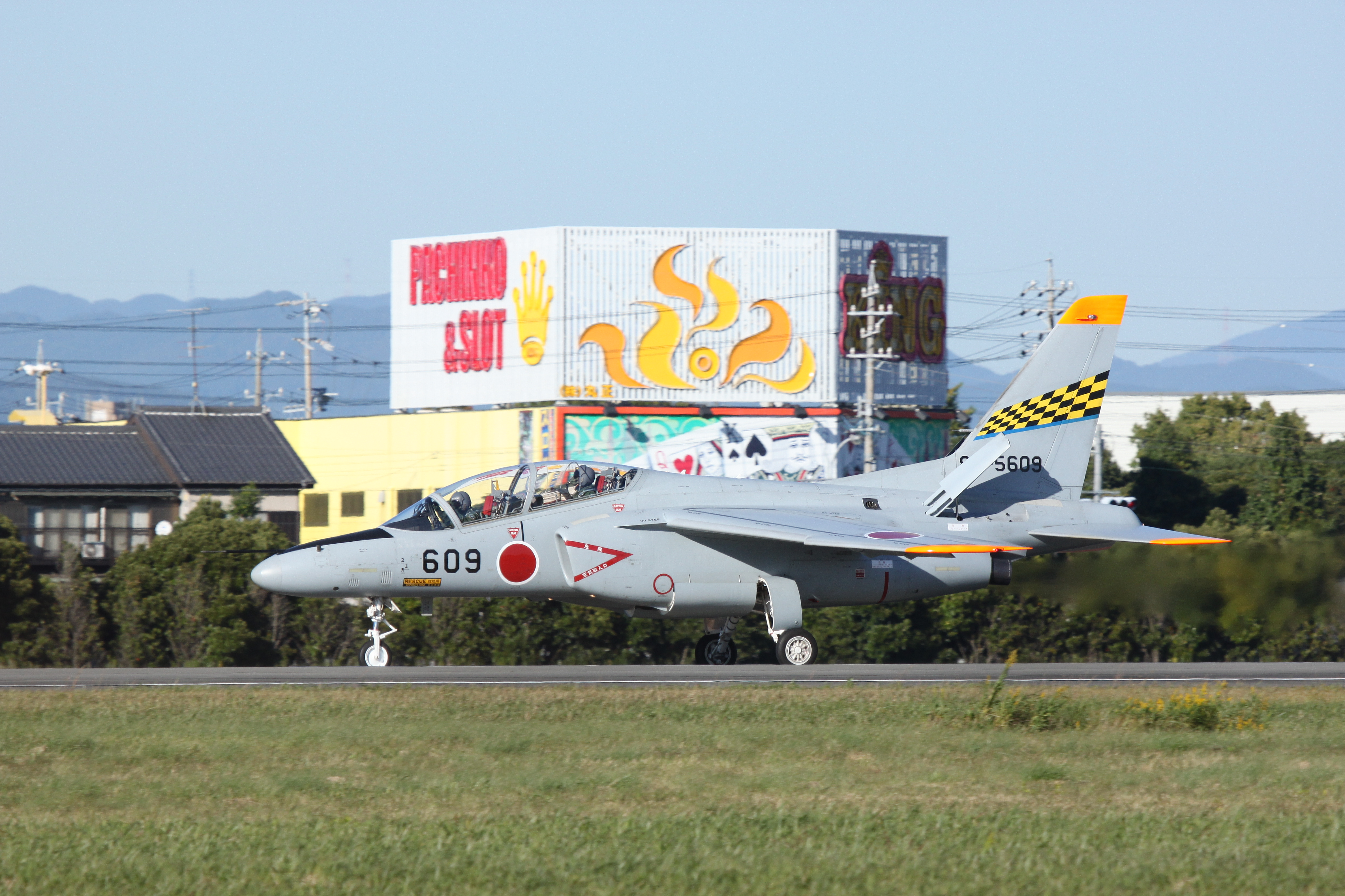 The different coloured lines on the bottom part of the checkered band on the tail denotes which squadron the aircraft belongs to.